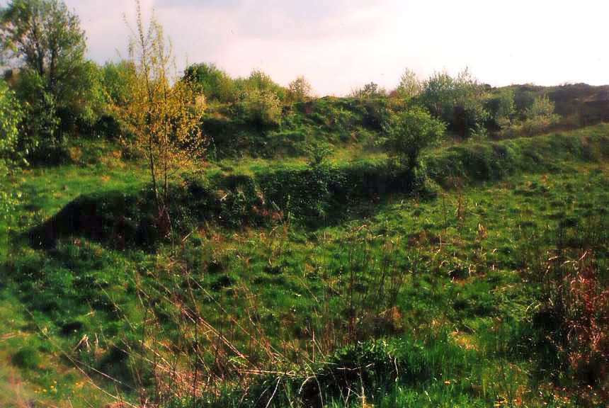 Overgrown foundations of the former Tannenberg monument near the site of the Battle of Grunwald